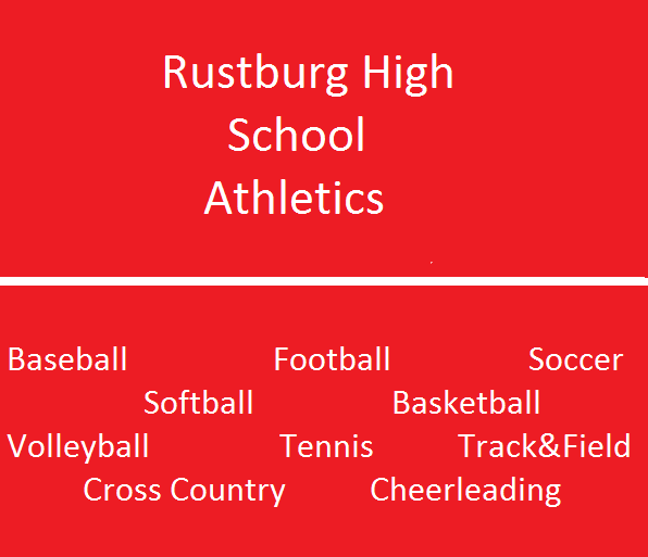 Rustburg Athletic Organizations